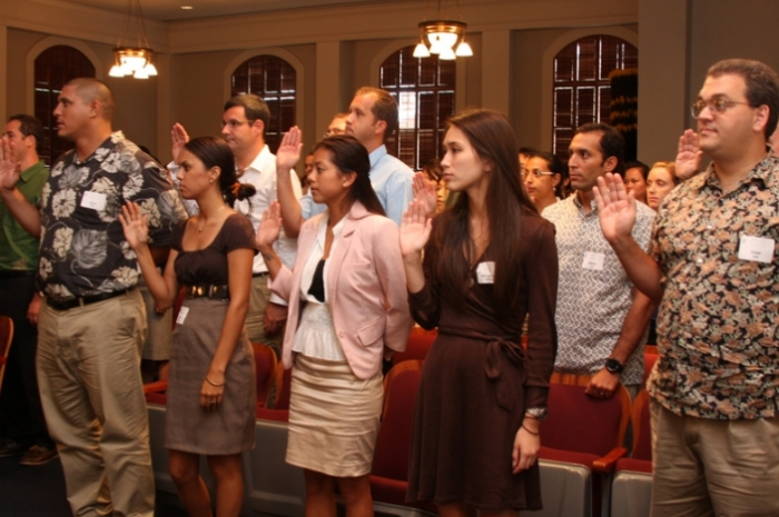 WSRL Oath